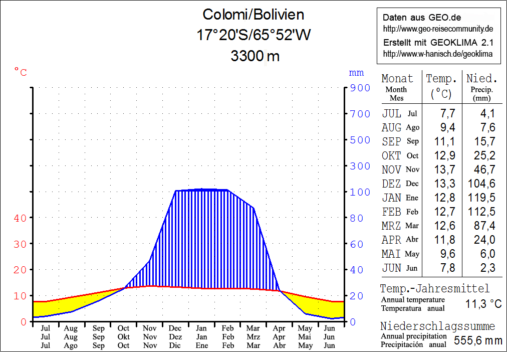 Climate chart in the Walter and Lieth format, metric, °Celsius und millimeters, made with Geoklima 2.1